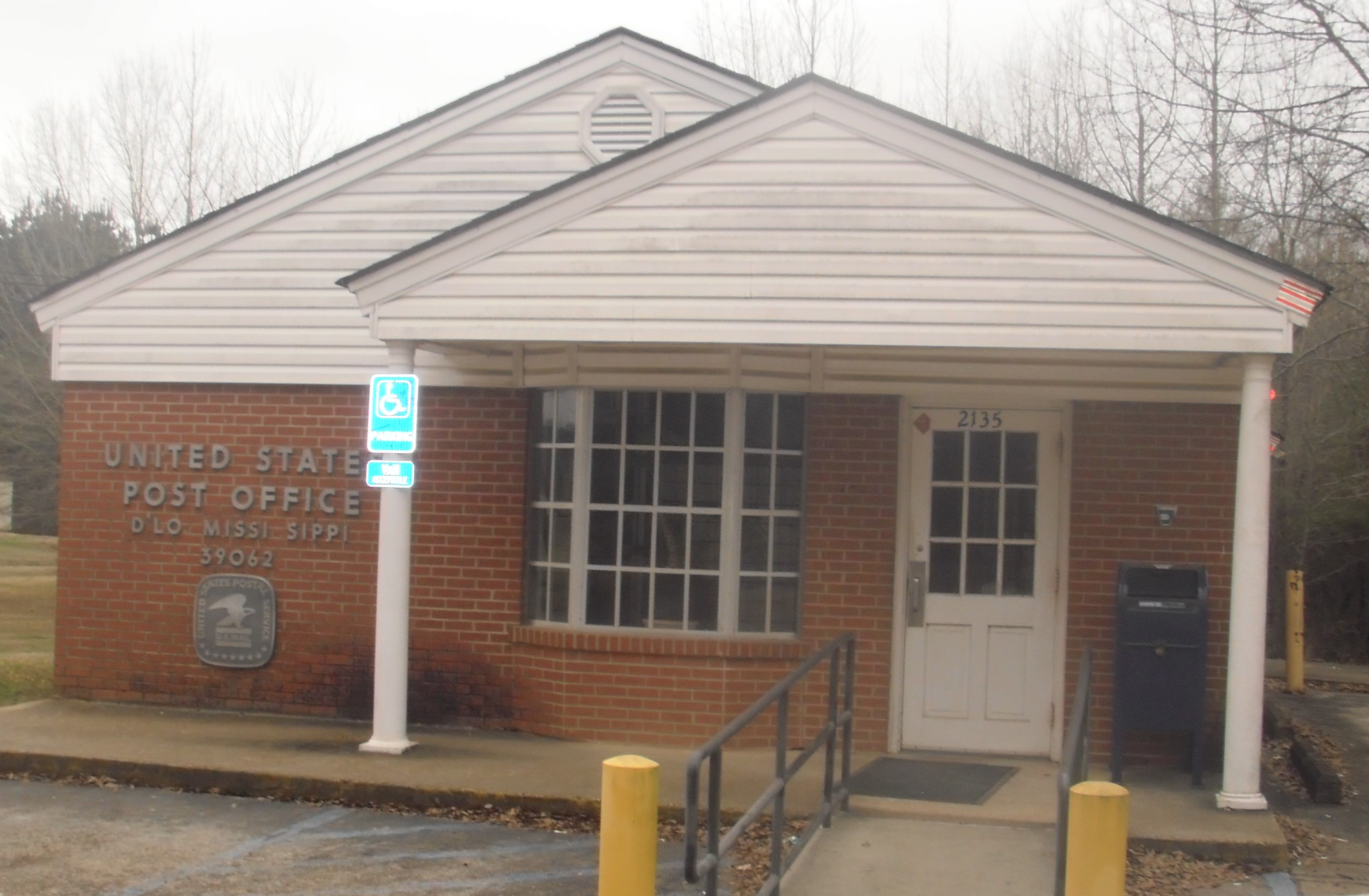 This is the D'Lo Post Office